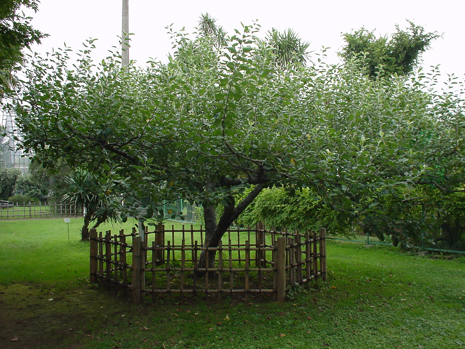 A descendant of Newton's apple tree, planted in the Botanical Gardens, the University of Tokyo, Japan.